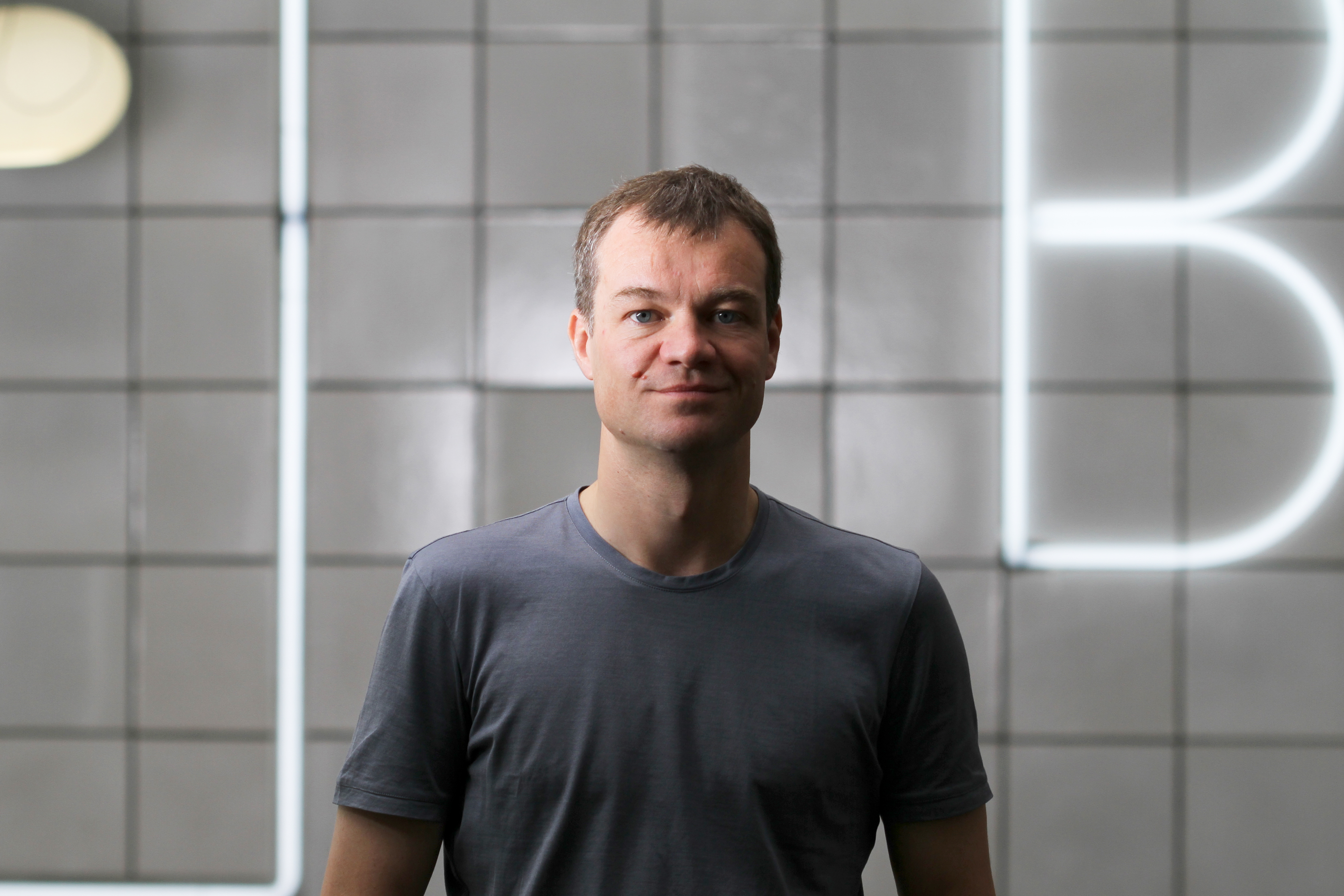 Professor Erik van Nimwegen